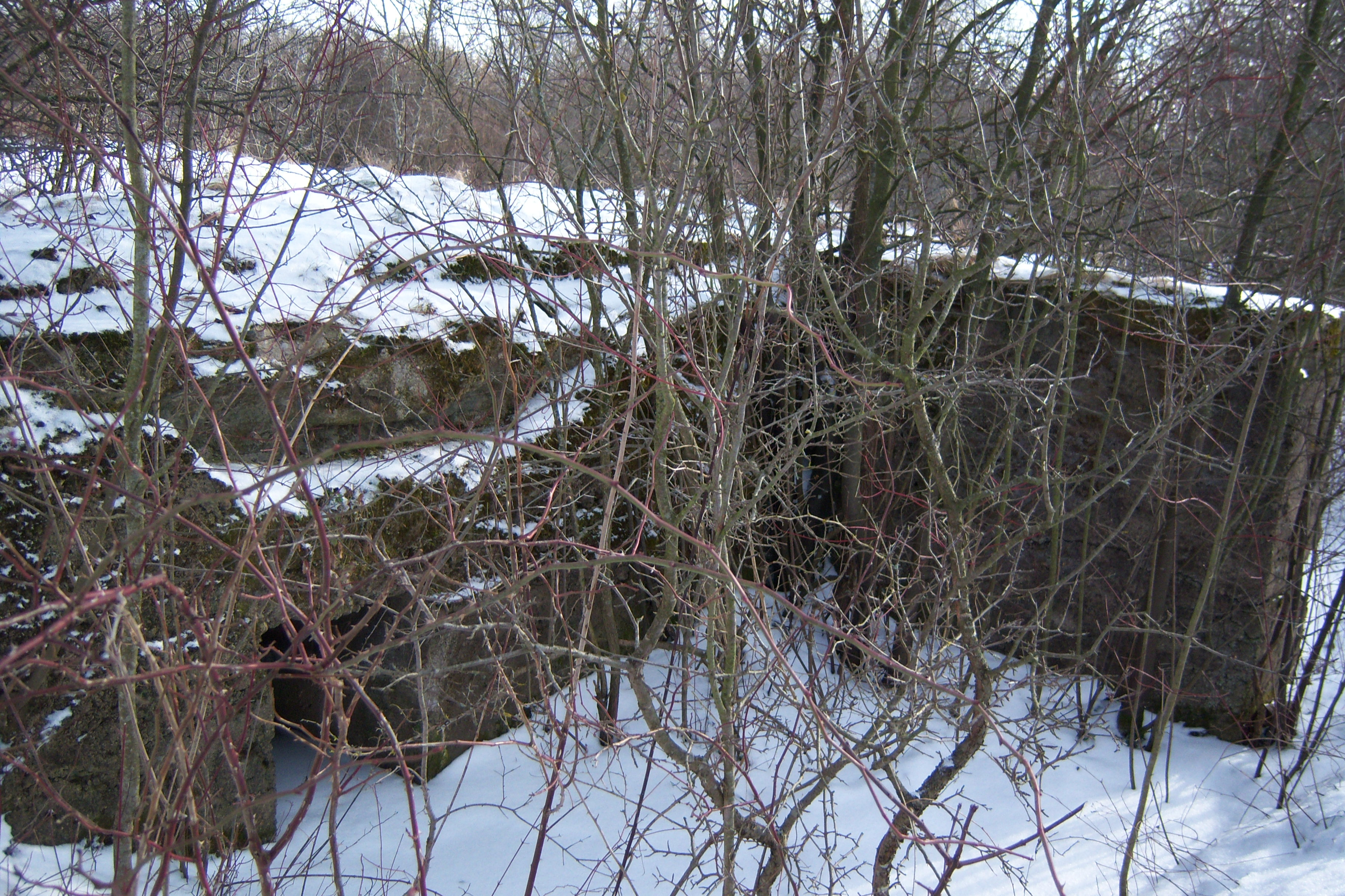 Palemonas Fort, Kaunas, Lithuania